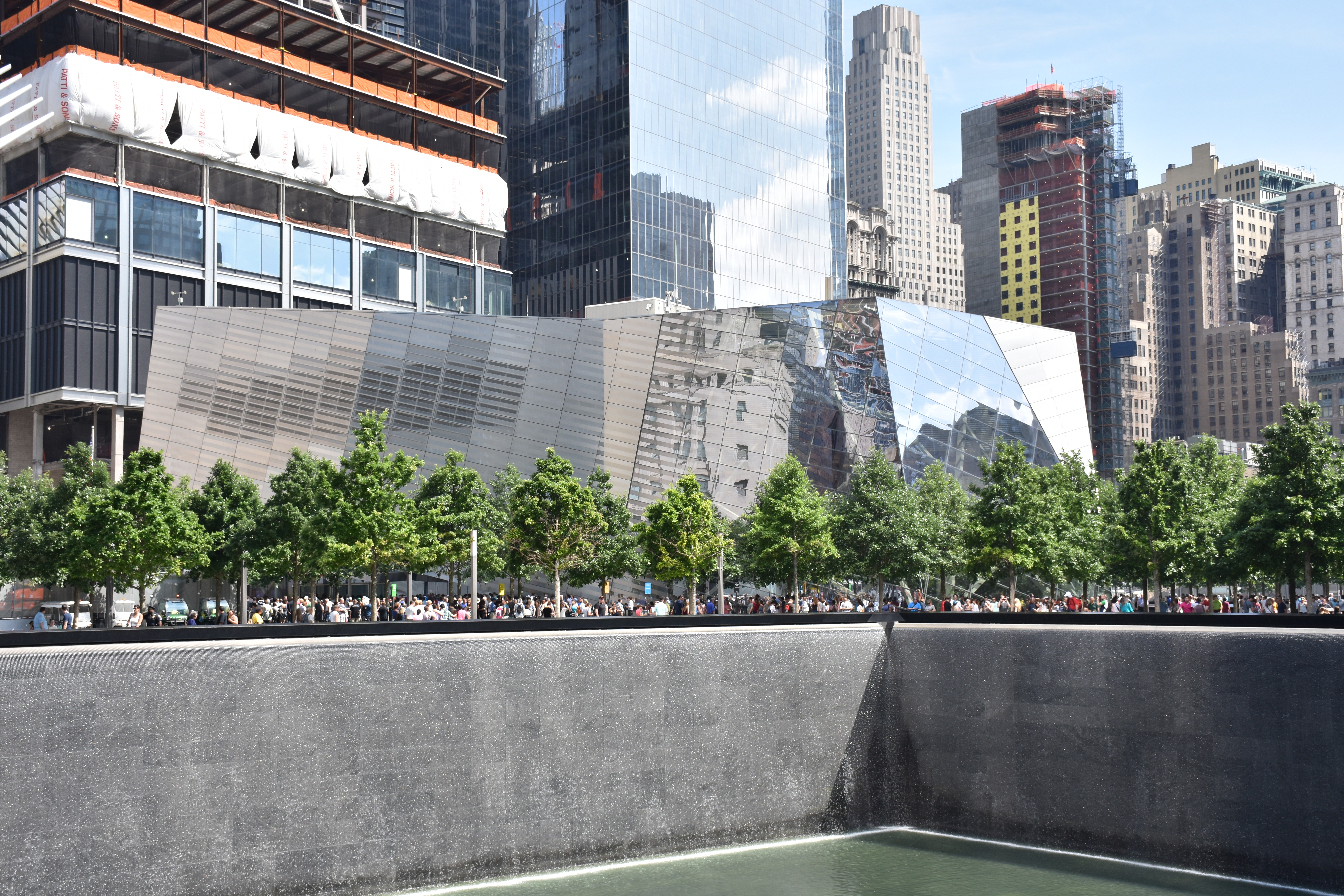 The September 11 Memorial & Museum in Spring 2015